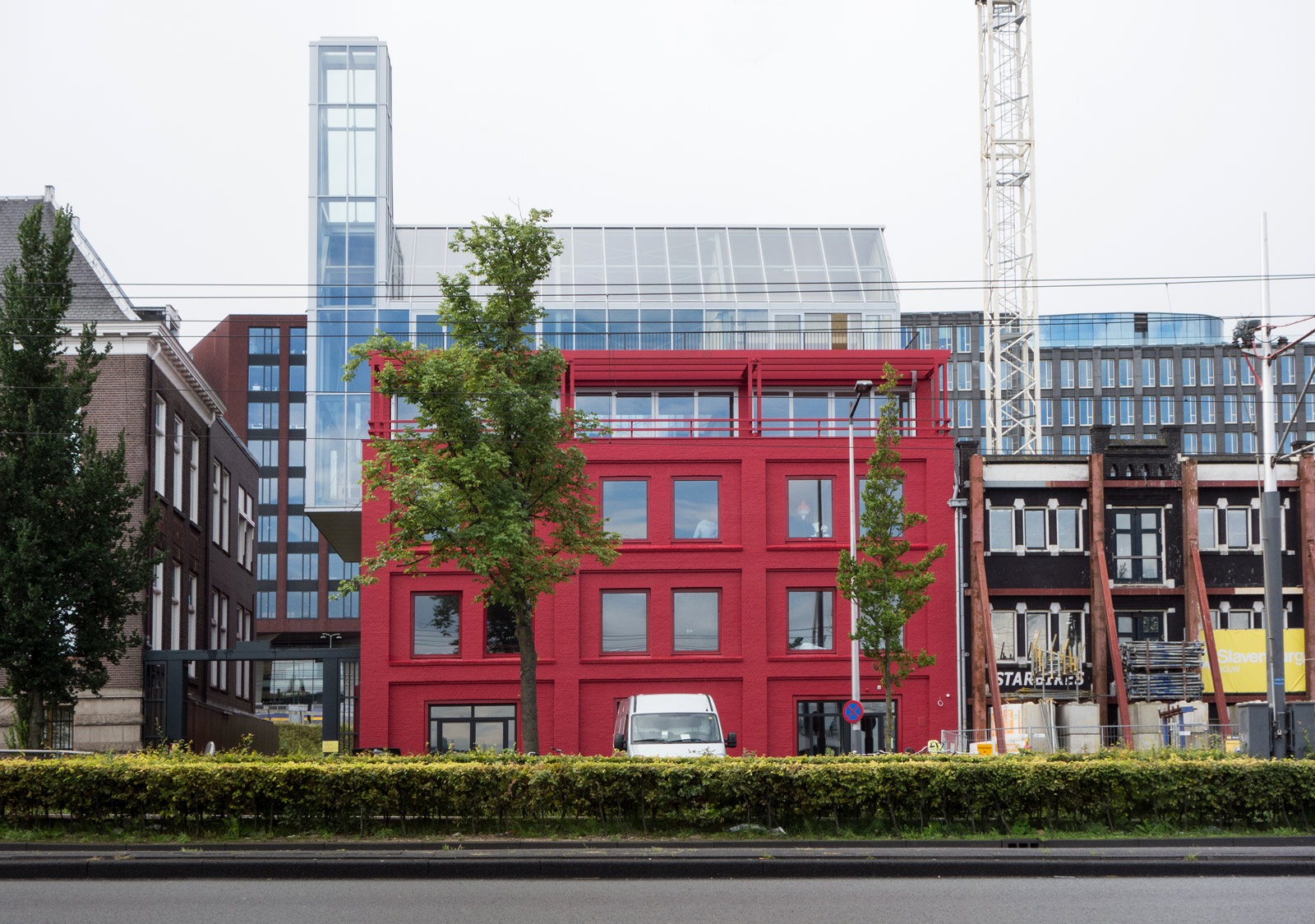 Spring House at Ruijterkade 128 in Amsterdam